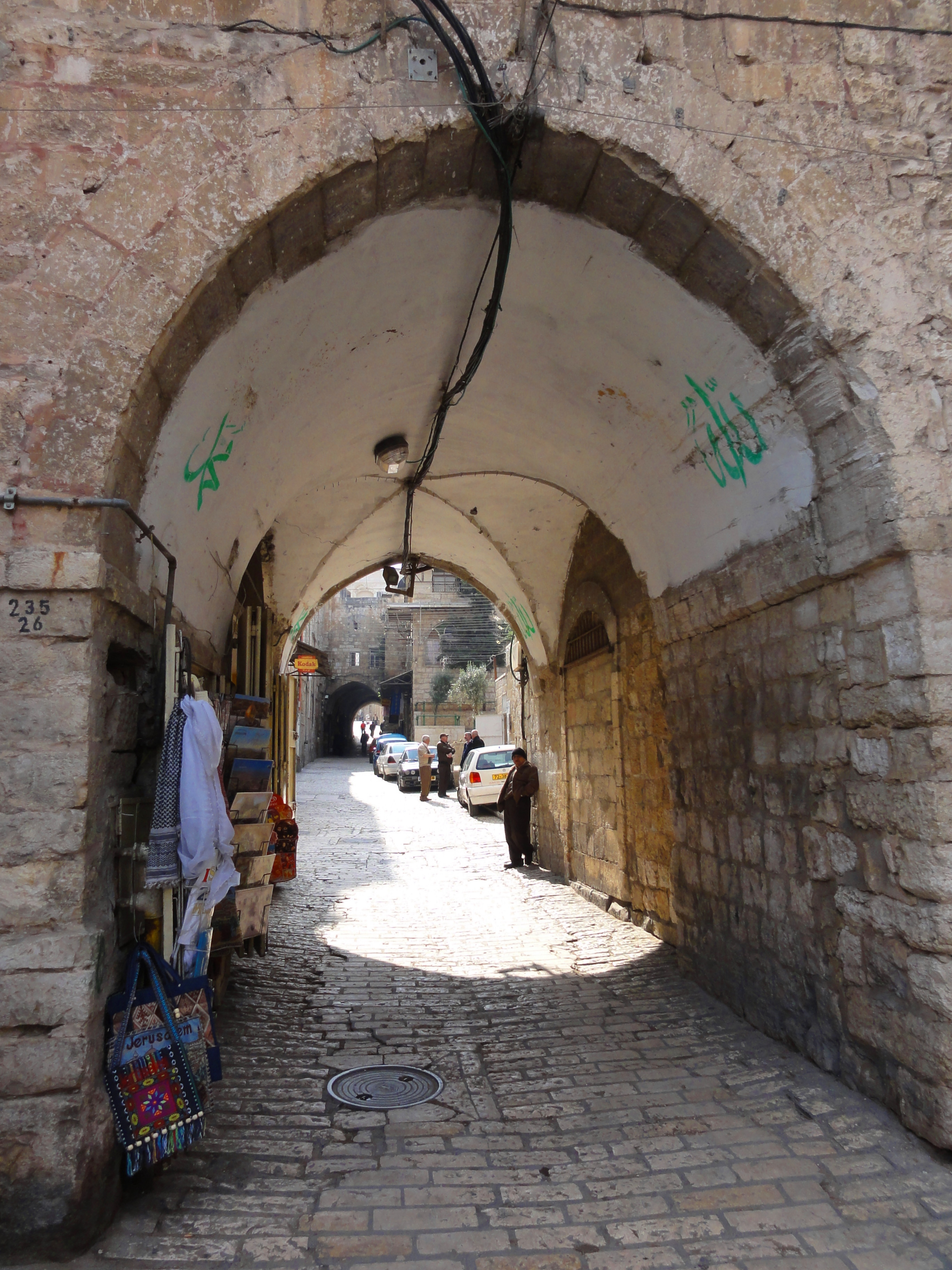 Islam and Christian